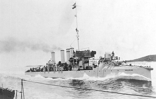 Austro-Hungarian destroyer (SMS Wildfang) - copyright expired